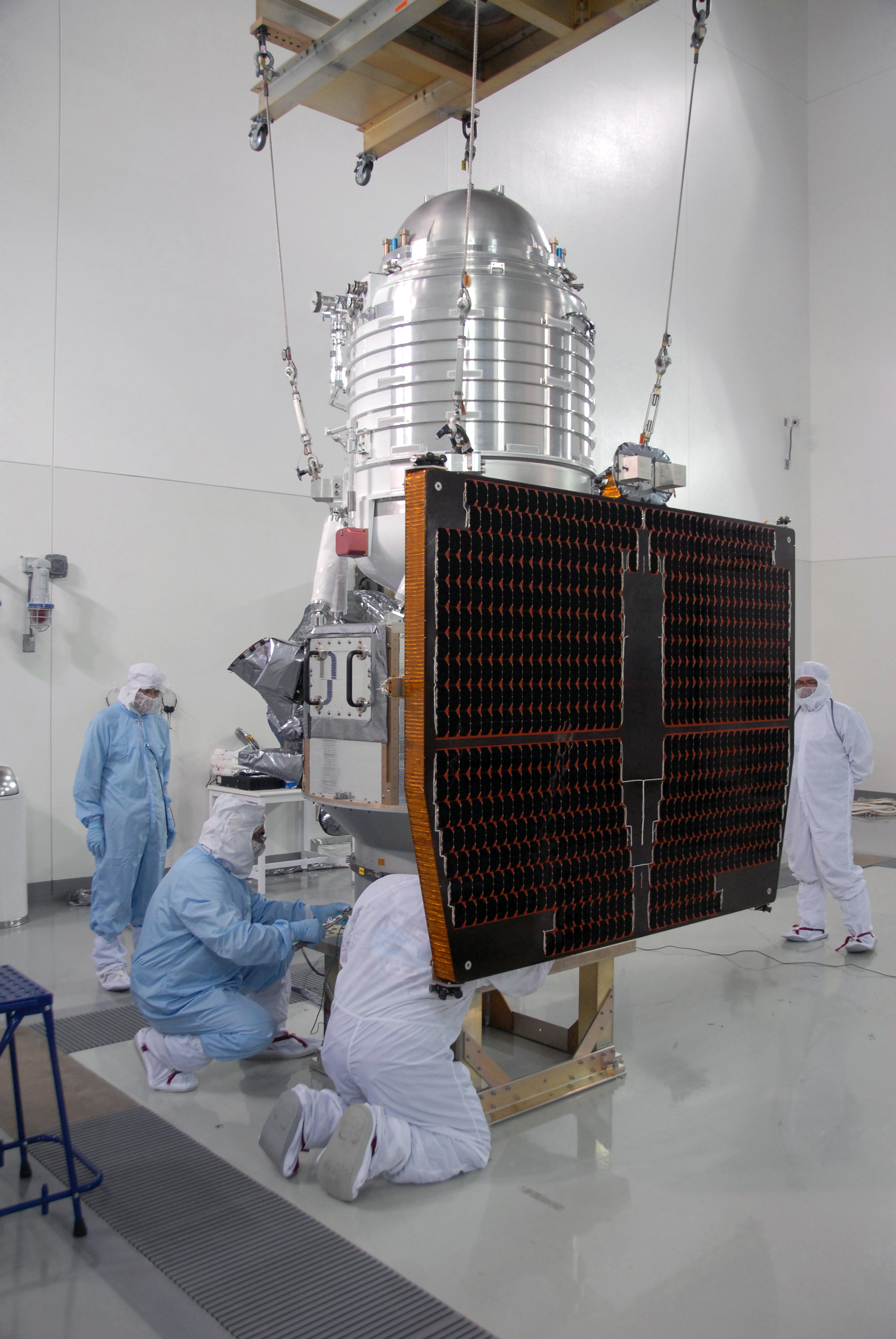 KSC-2009-4759 (08/17/2009) --- VANDENBERG AIR FORCE BASE, Calif. -- At Vandenberg Air Force Base's Astrotech processing facility in California, workers secure NASA's Wide-field Infrared Survey Explorer, or WISE, spacecraft onto a work stand. At right is seen the fixed panel solar array. The satellite will survey the entire sky at infrared wavelengths, creating a cosmic clearinghouse of hundreds of millions of objects, which will be catalogued, providing a vast storehouse of knowledge about the solar system, the Milky Way, and the universe. Launch is scheduled no earlier than Dec. 10. Photo credit: NASA/Moore, VAFB